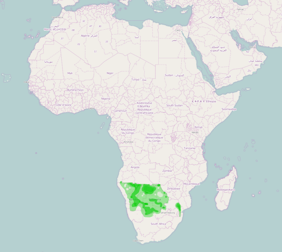 Distribution area of Burchell's glossy starlling (Lamprotornis australis)